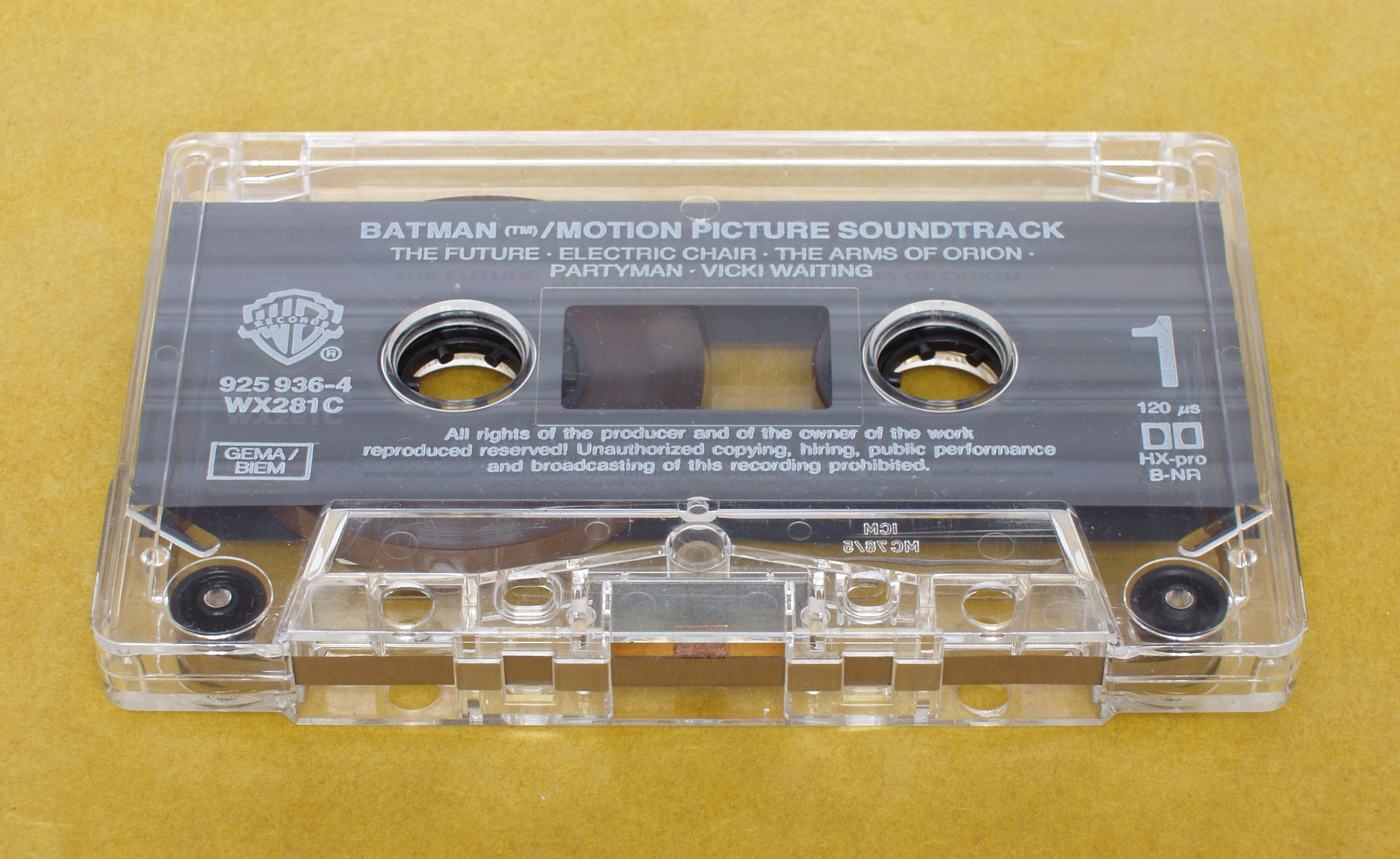 A photograph of a prerecorded cassette album: the soundtrack of the movie Batman, by Prince.